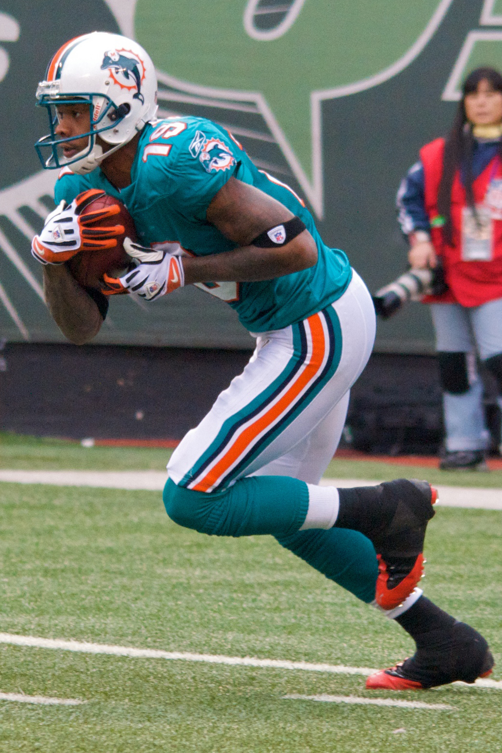 Ted Ginn, Jr. of the Miami Dolphins